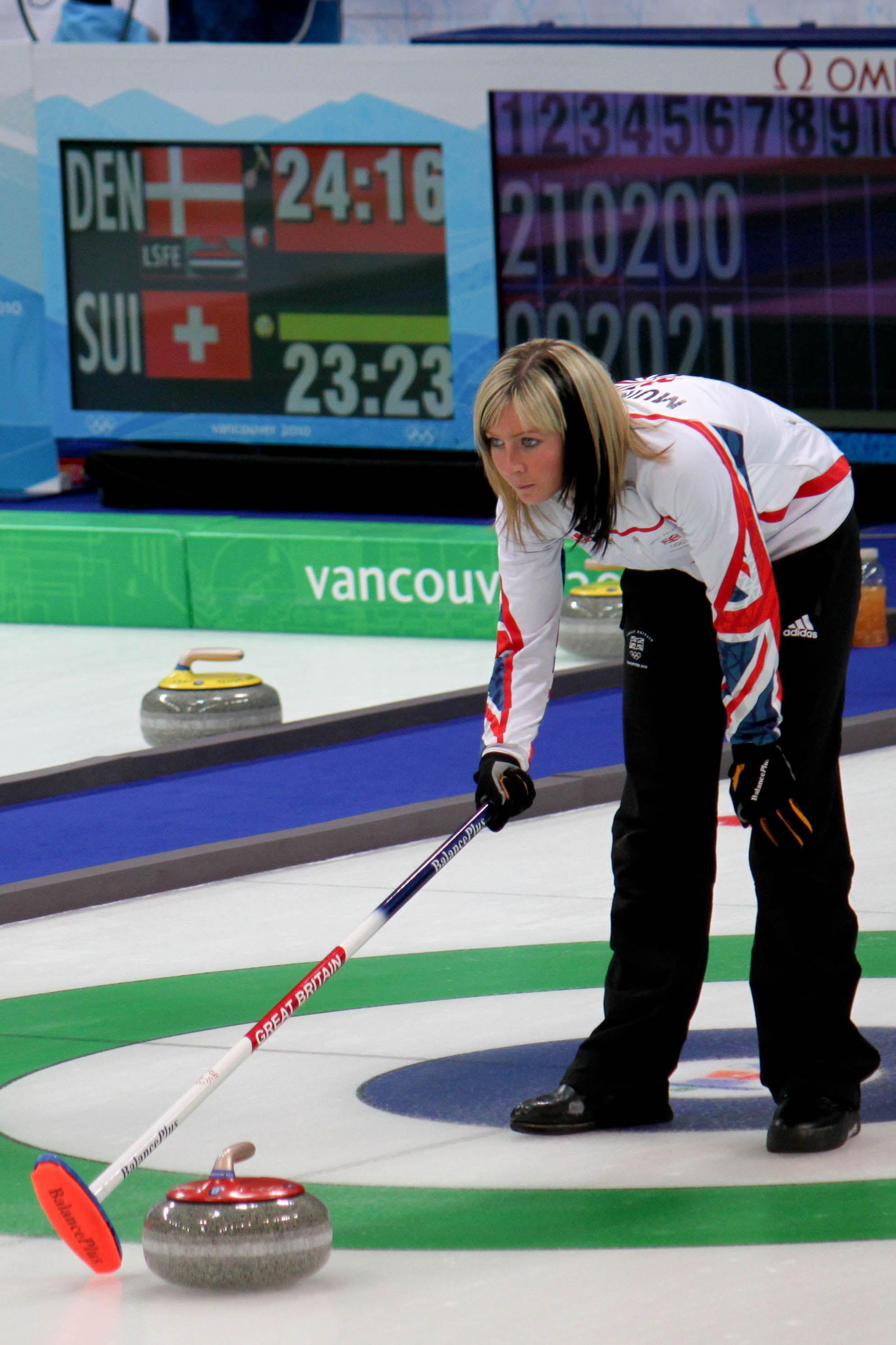 Eve Muirhead, GBR